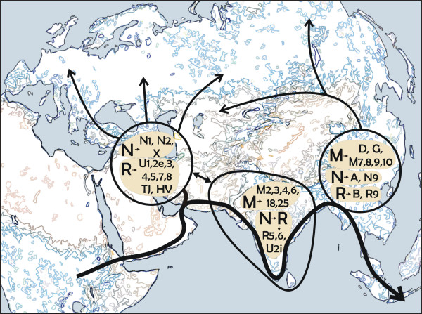 Suggested migratory route of the "Out of Africa" migration according to Mitochondrial DNA